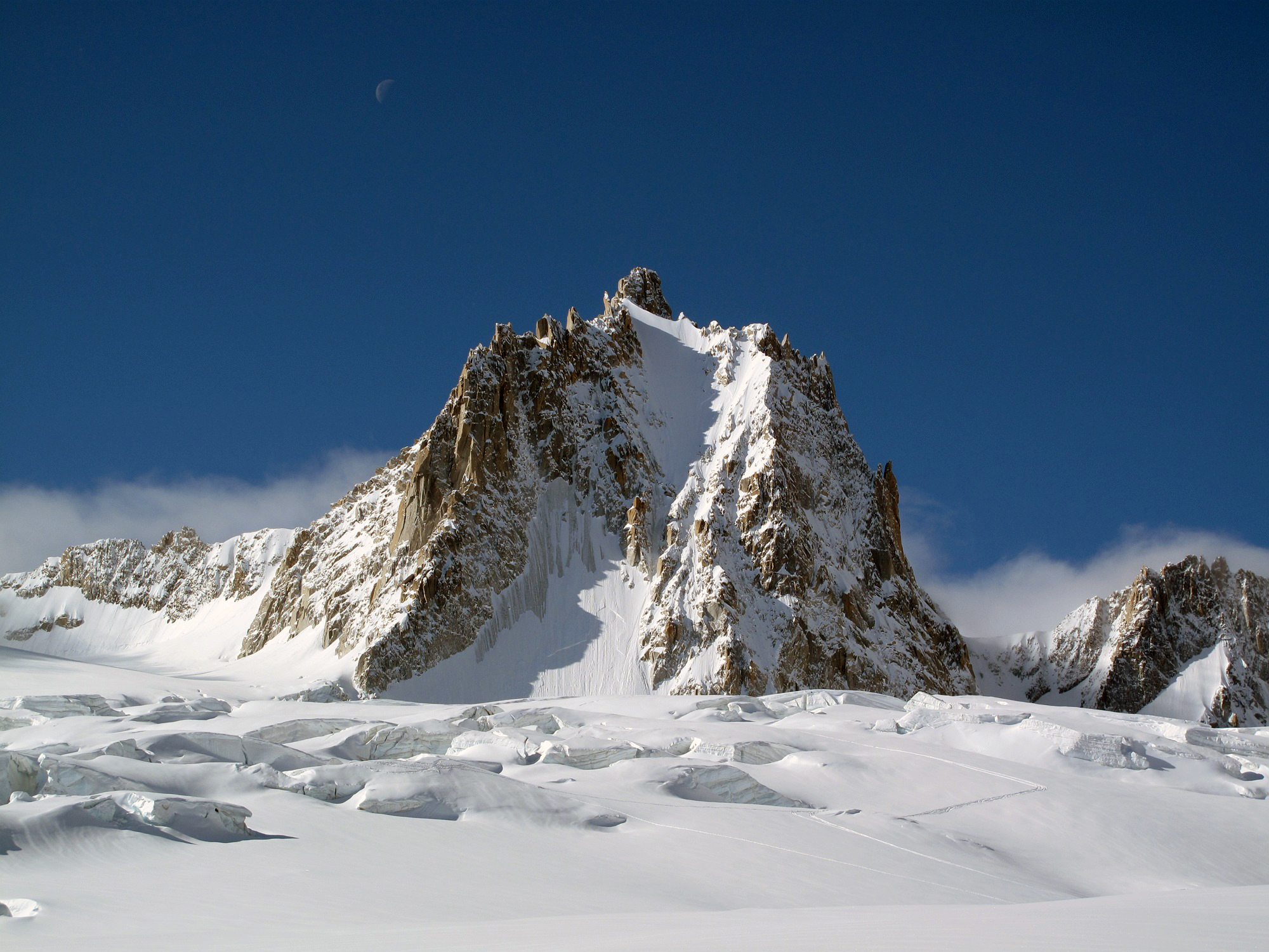 Tour Ronde, north face, Massiv of Mont Blanc.